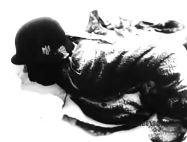 Still from Moscow Strikes Back, Soviet documentary of the Battle of Moscow. Directed by Ilya Kopalin. 1 of 4 films to win the 1943 Academy Award for Best Documentary.